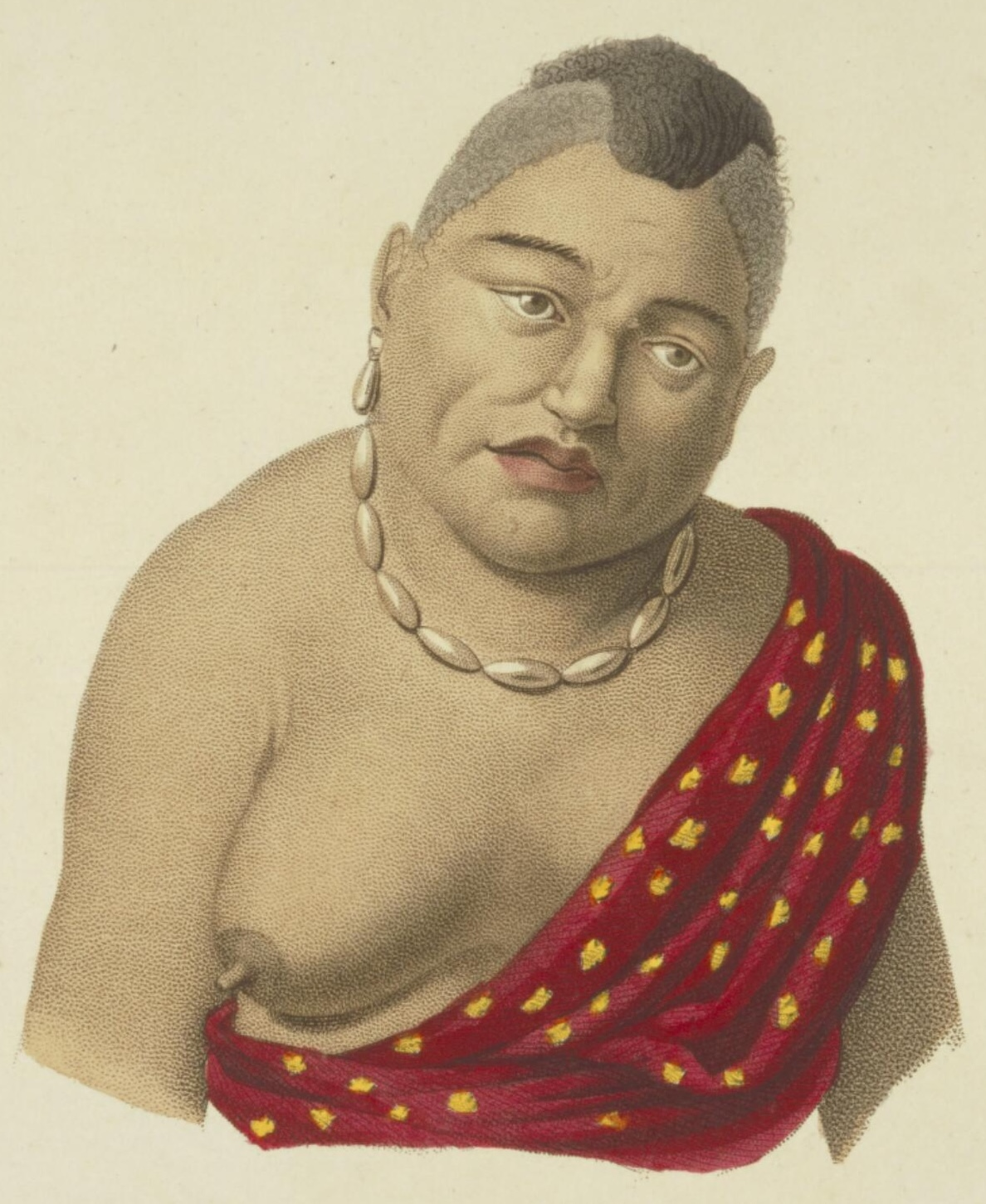 Îles Sandwich. 2. Kéohoua, femme du chef Kaïroua, by Alphonse Pellion. A print from Pl. no. 83 of: Voyage autour du Monde, 1817-1820, by Louis Claude Desaulses de Freycinet (1779-1842).